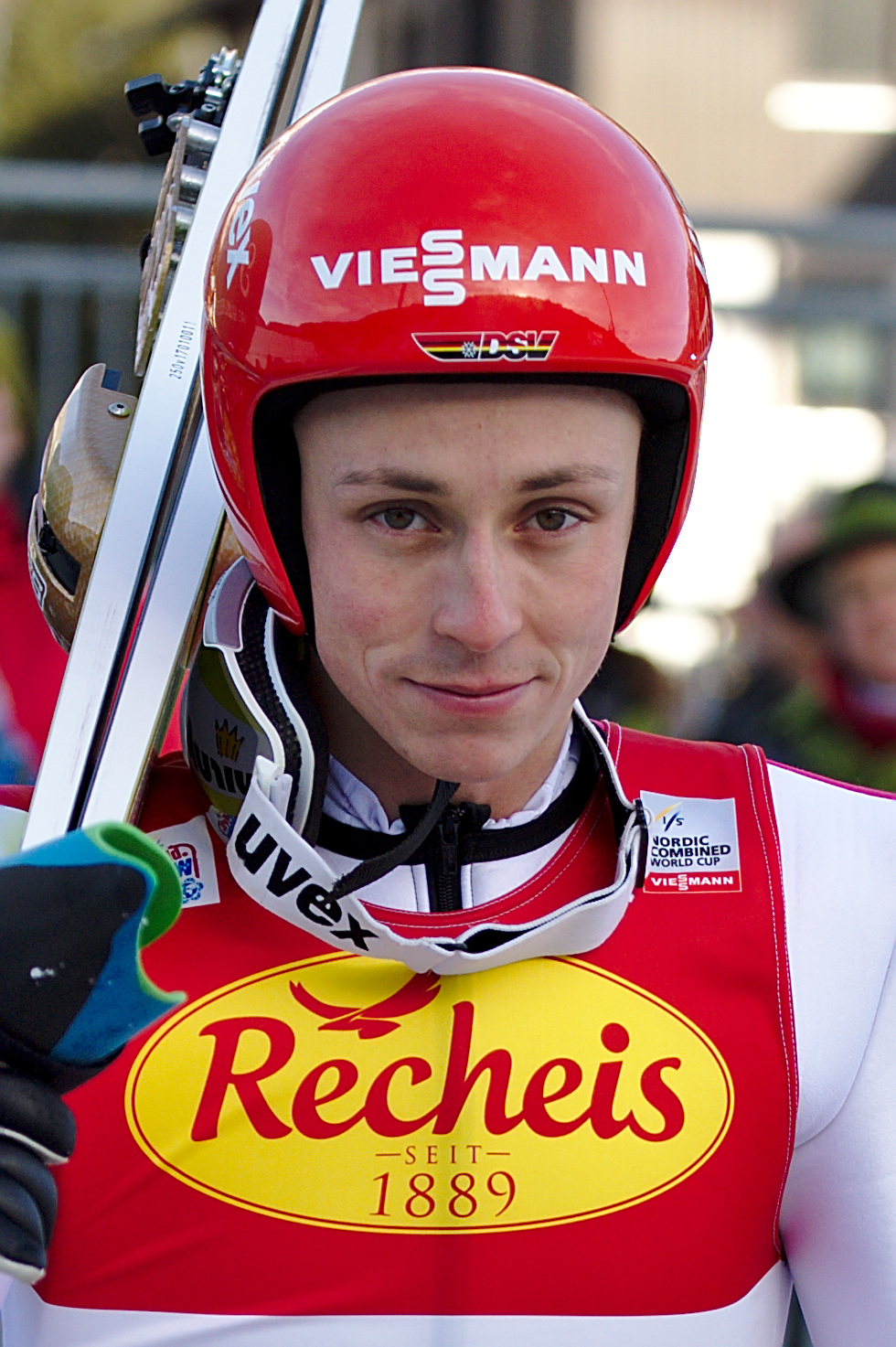 Eric Frenzel (GER)